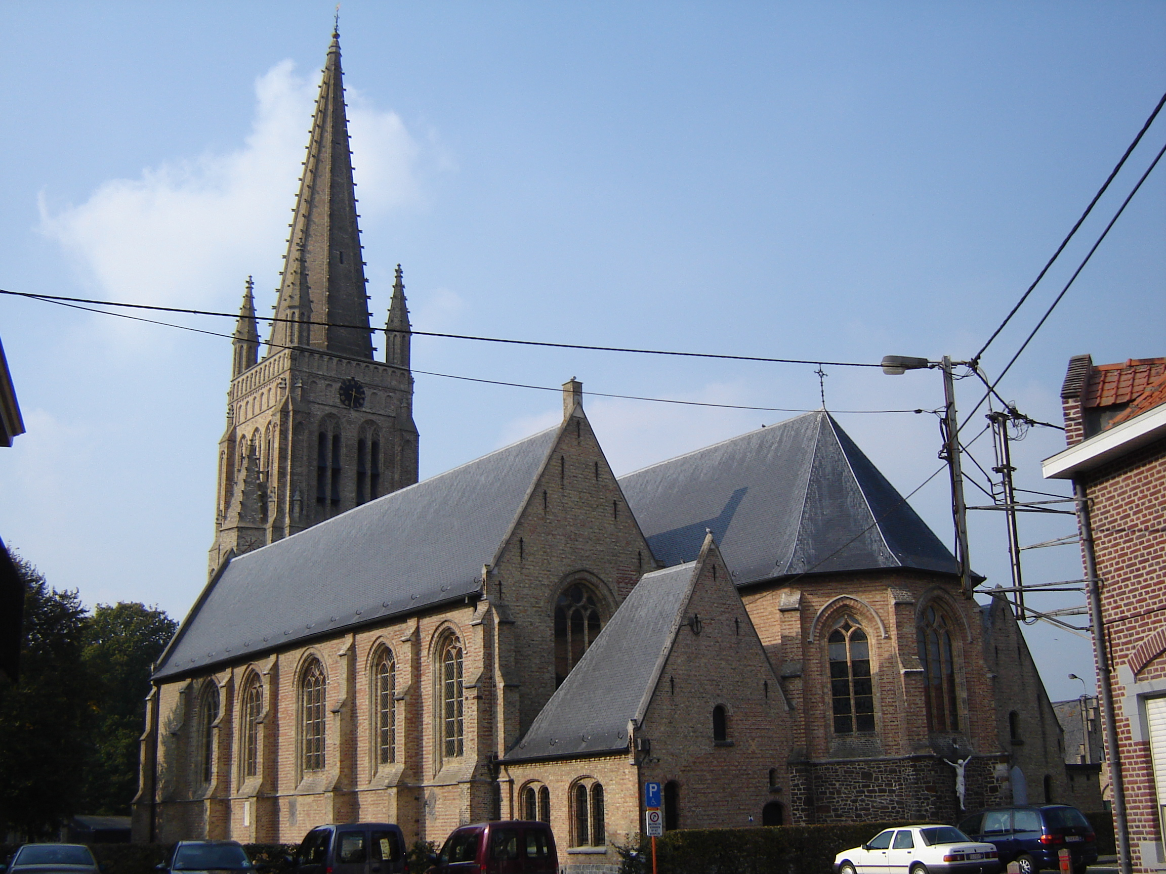 Church of Saint Peter and Paul in Elverdinge. Elverdinge, Ieper, West Flanders, Belgium